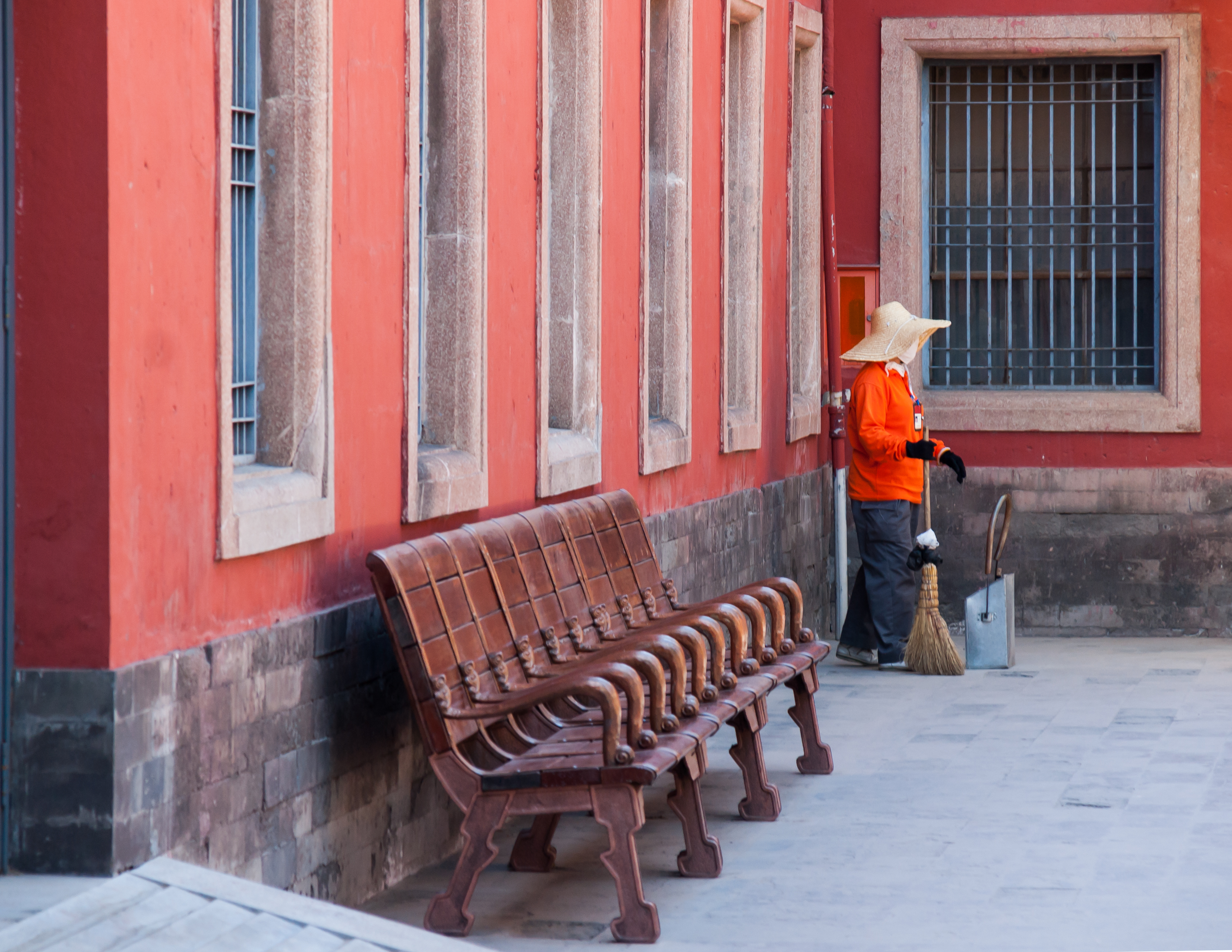 Beijing, China: A woman, cleaning the roads in the Forbidden City.